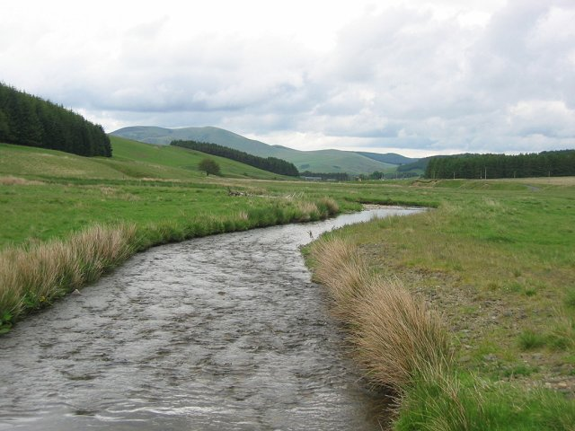 Holms Water. The river taken from the corner of this mostly forested square on the slopes of Blakehope Head